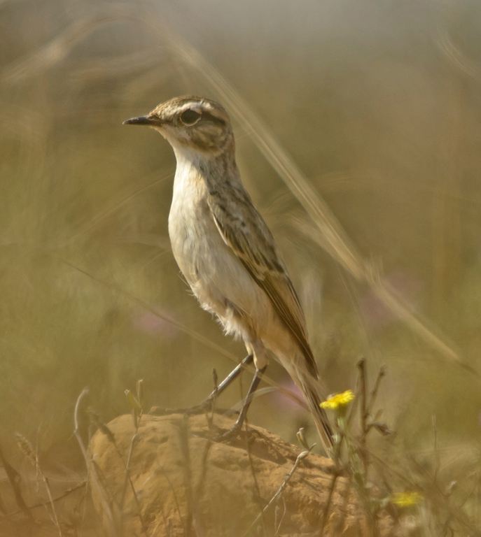 at Kutch